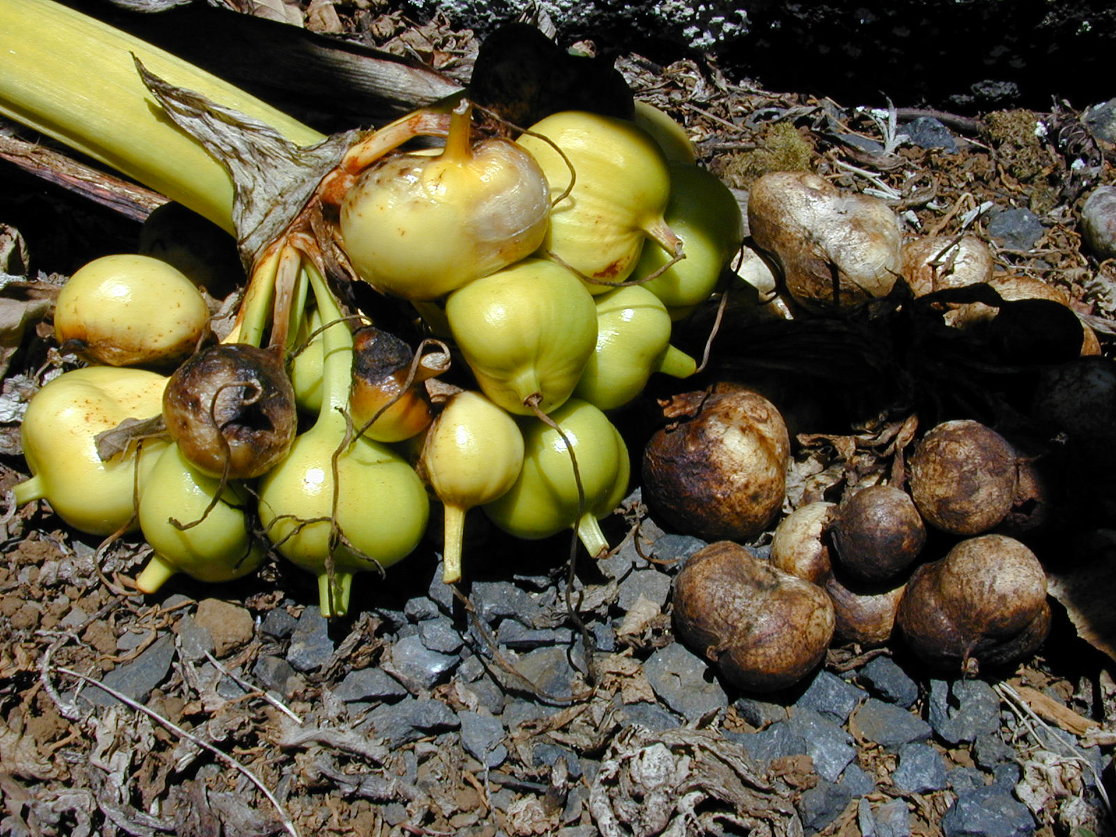 Crinum sp. (fruits). Location: Maui, Hui Noeau Makawao